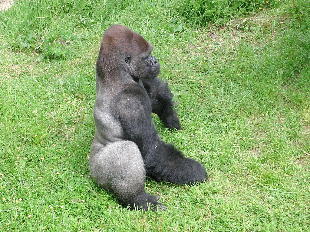 Silverback gorilla. A silverback is an adult male gorilla, typically more than 12 years of age and named for the distinctive patch of silver hair on his back. A silverback gorilla has large canines that come with maturity. Silverbacks are the strong, dominant troop leaders .